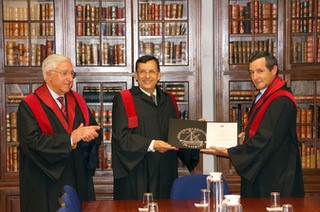 Prof. Dr. Jorge Trindade at the University of Lisbon, between Prof. Dr. Fausto Amaro on the left, and on the right, Prof. Dr. Manuel Meirinho